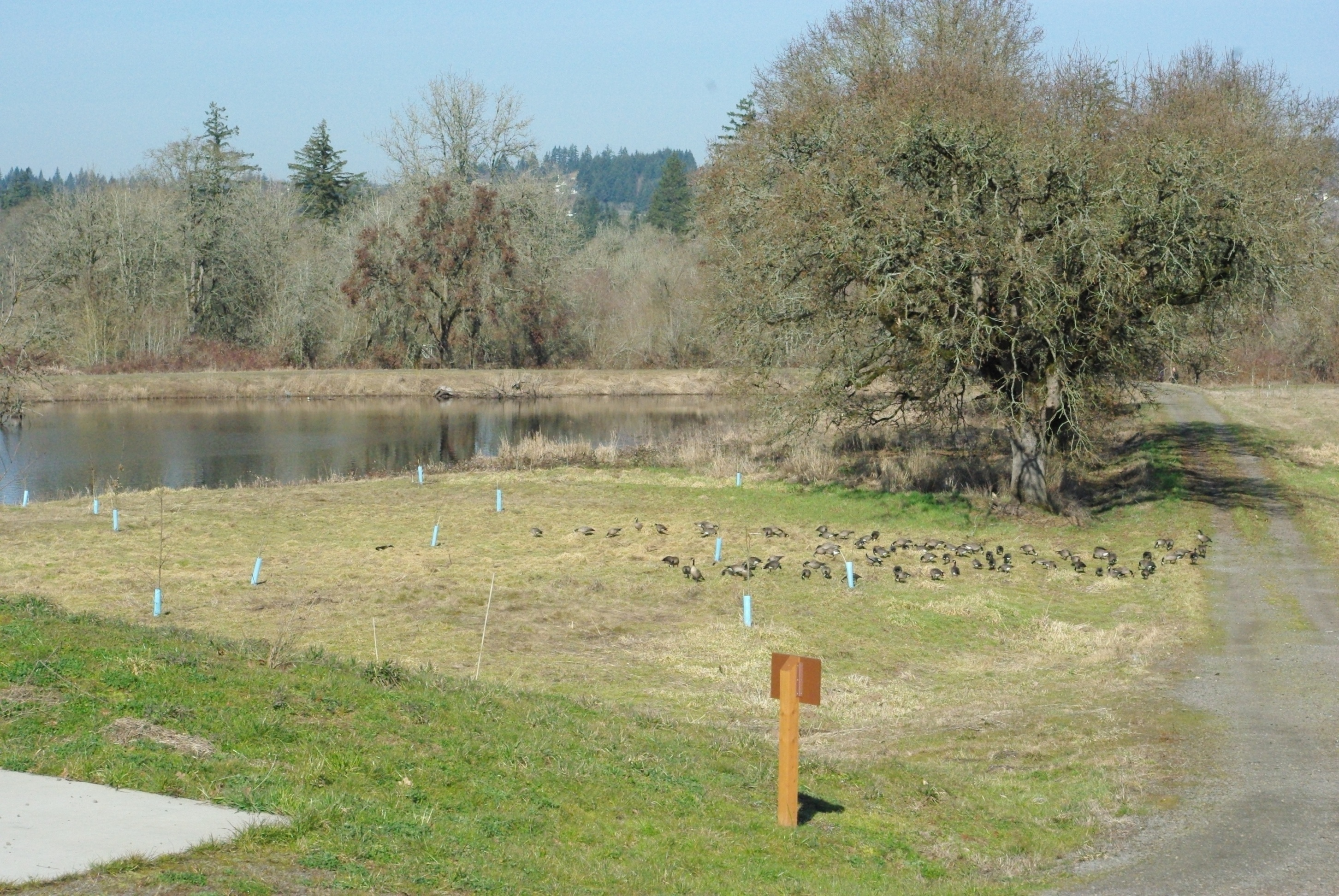 The Tualatin River National Wildlife Refuge near Sherwood, Oregon, USA.